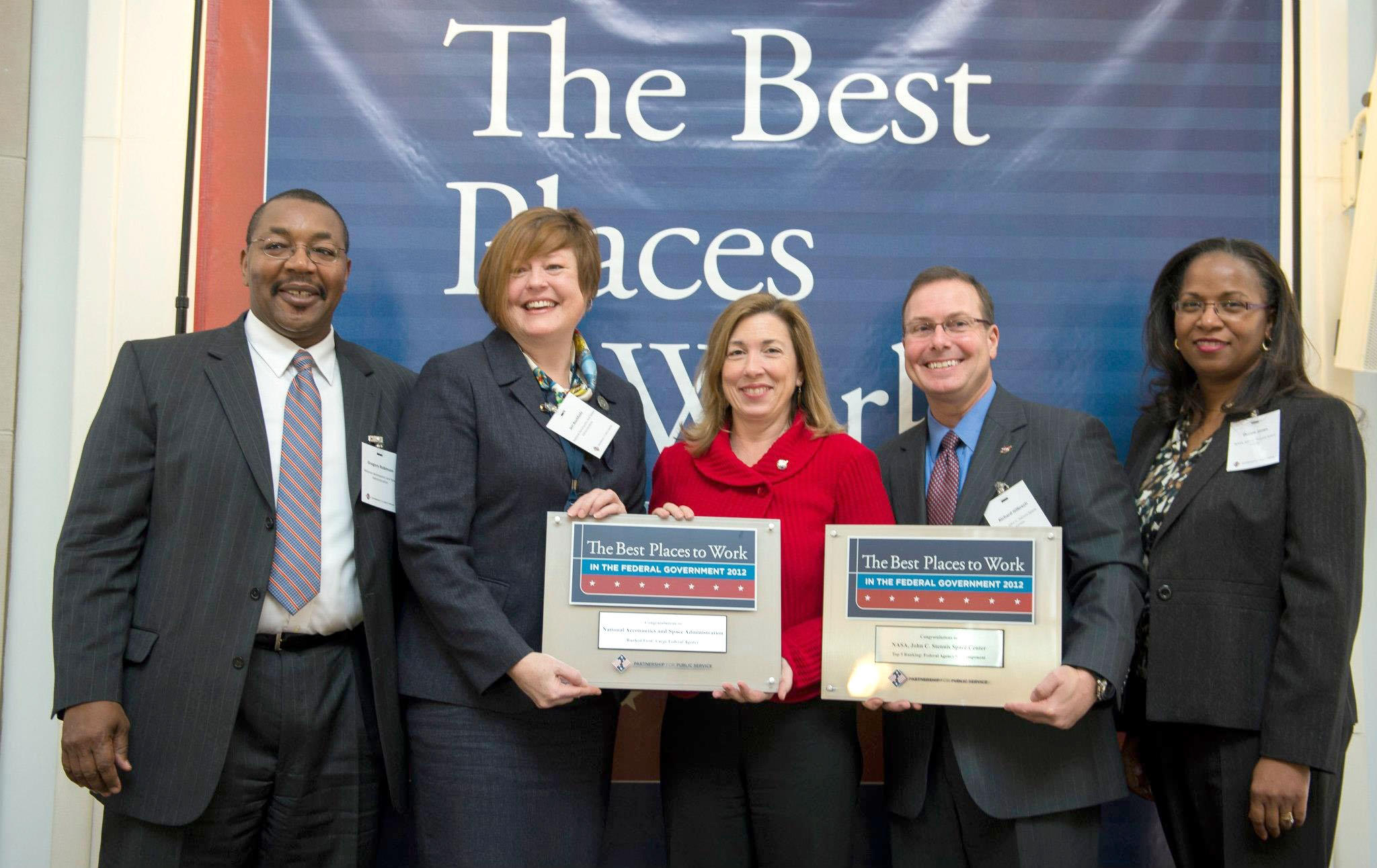 NASA and Stennis Space Center were recognized by Partnership for Public Service as best places to work in government during a Dec. 13 ceremony in Washington, D.C. Ceremony participants included: Greg Robinson (l to r), NASA deputy chief engineer; Jeri Buchholz, assistant administrator for NASA's Human Capital Management; Lori Garver, NASA deputy administrator; Rick Gilbrech, Stennis Space Center director; and Dorsie Jones, manager of the Stennis Office of Human Capital.